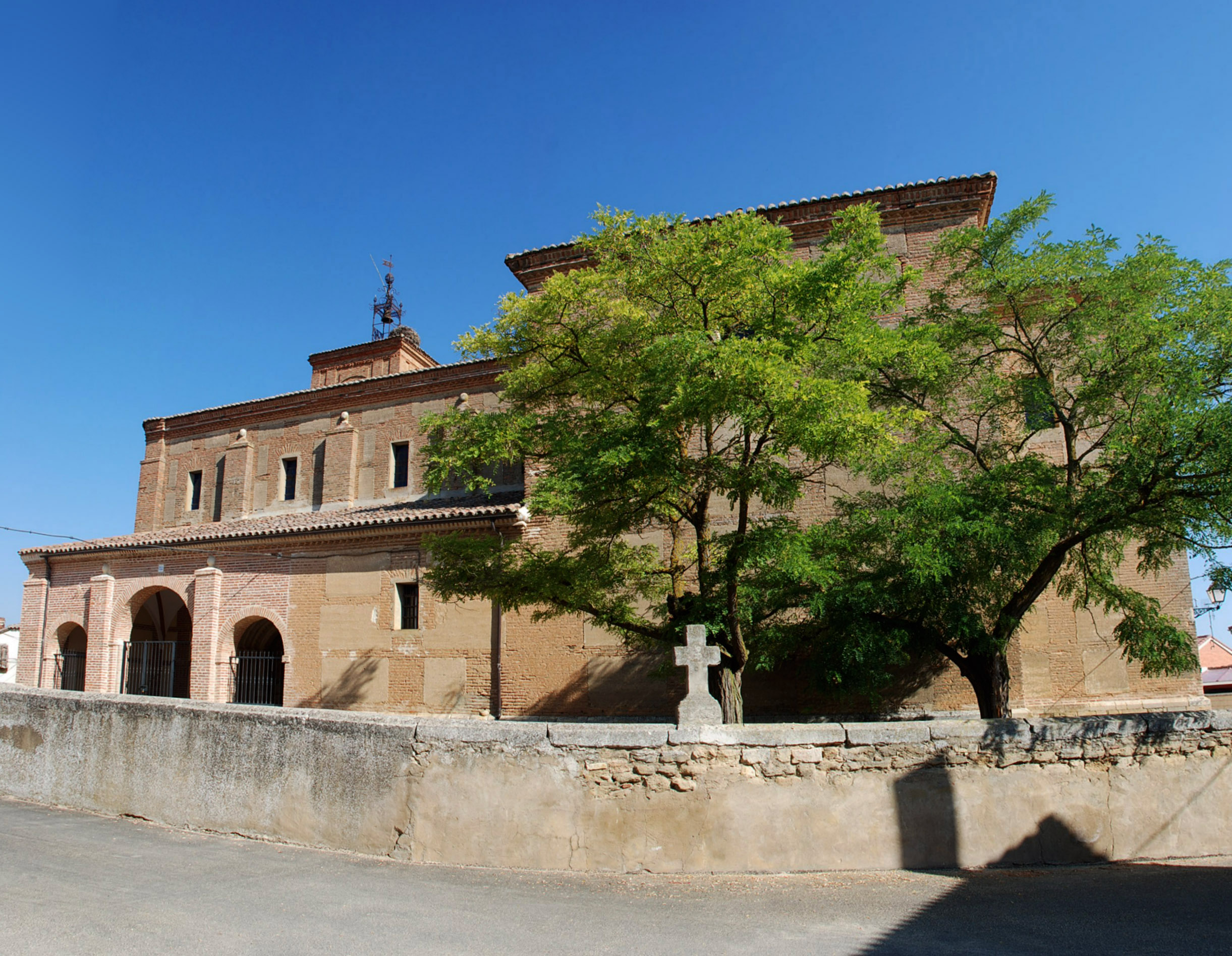 Church of Saint Quirico in Castrillo de Villavega (Palencia, Castile and León).